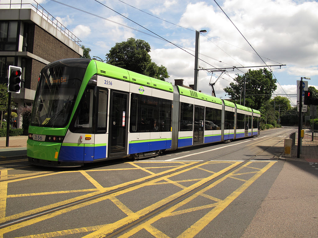 New tram in Croydon